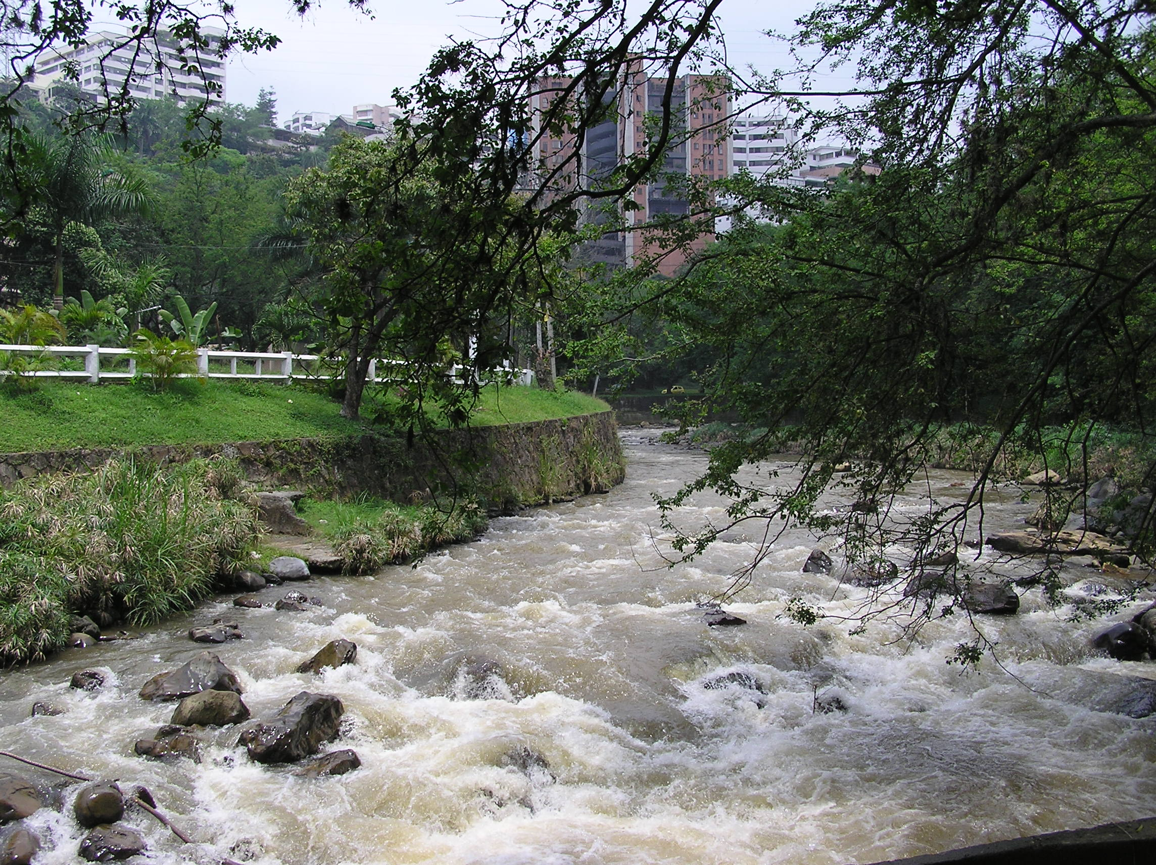 Río Cali a su paso por Cali Colombia